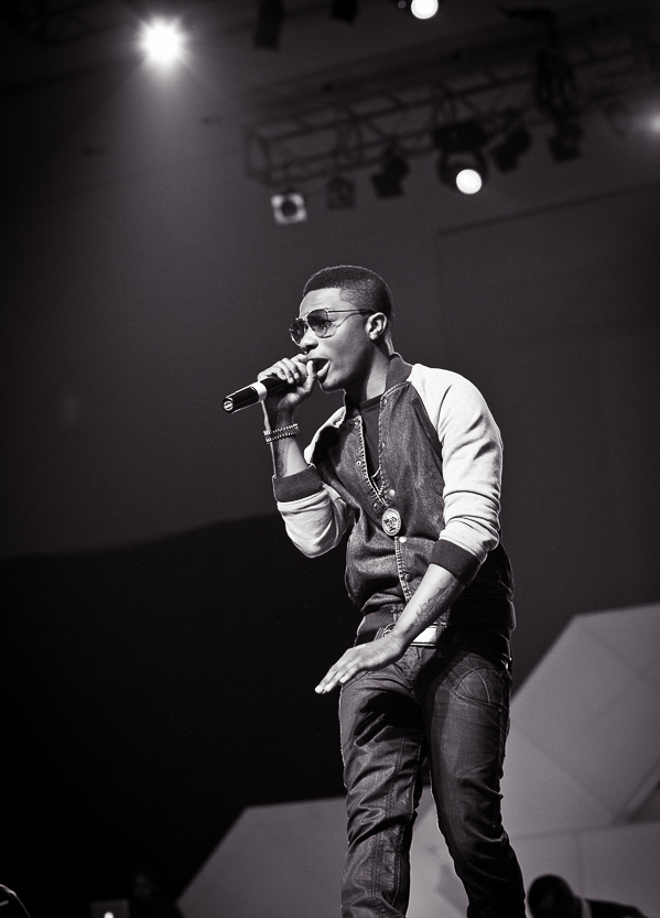 Wizkid performing at the Iyanya vs. Desire album launch concert in 2013